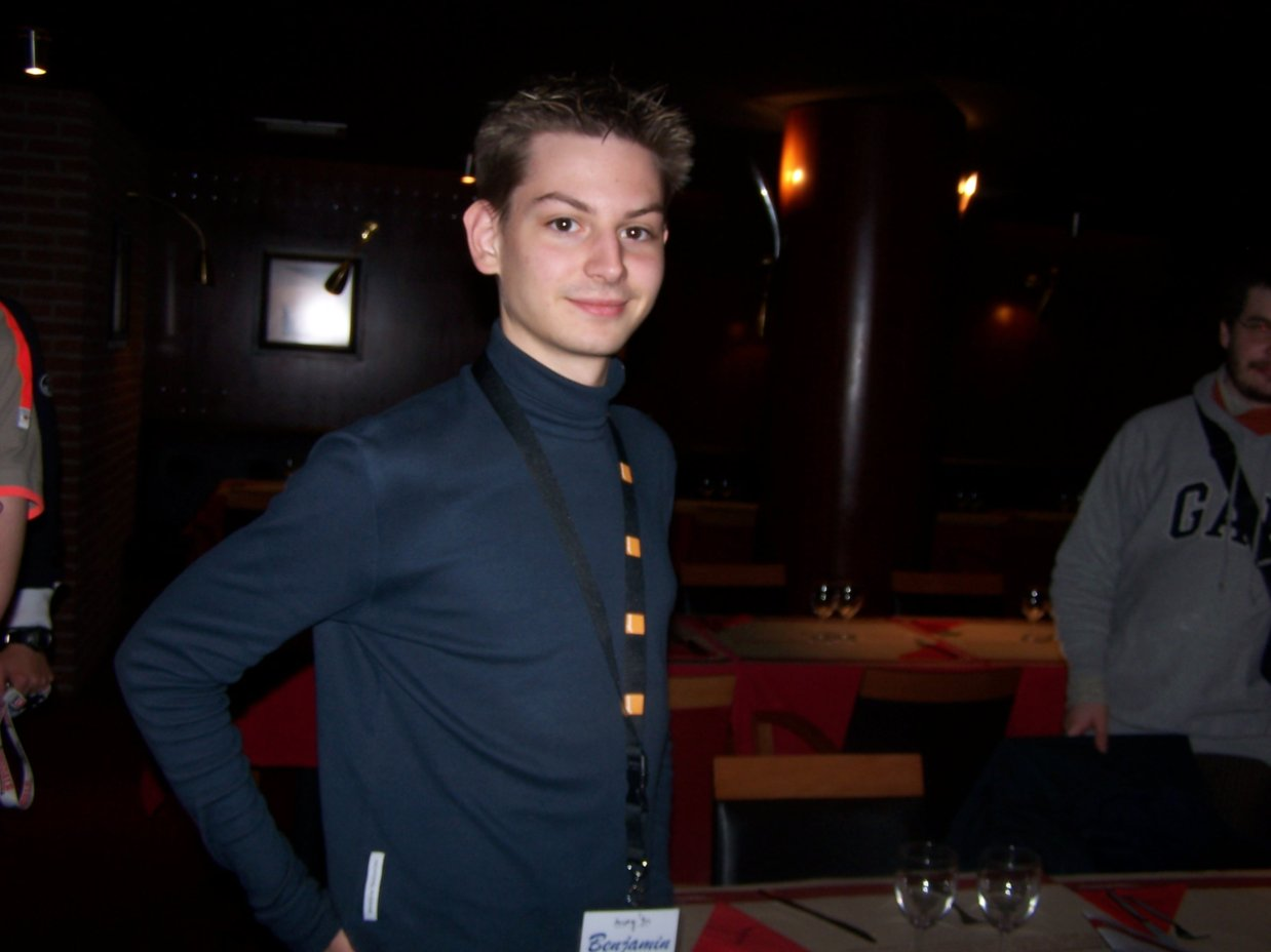 Benjamin Lemaire